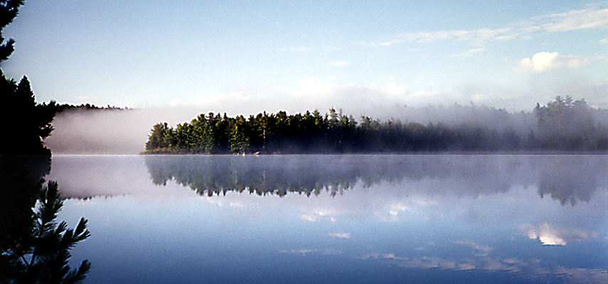 Rabbit Lake - Temagami, Ontario, Canada